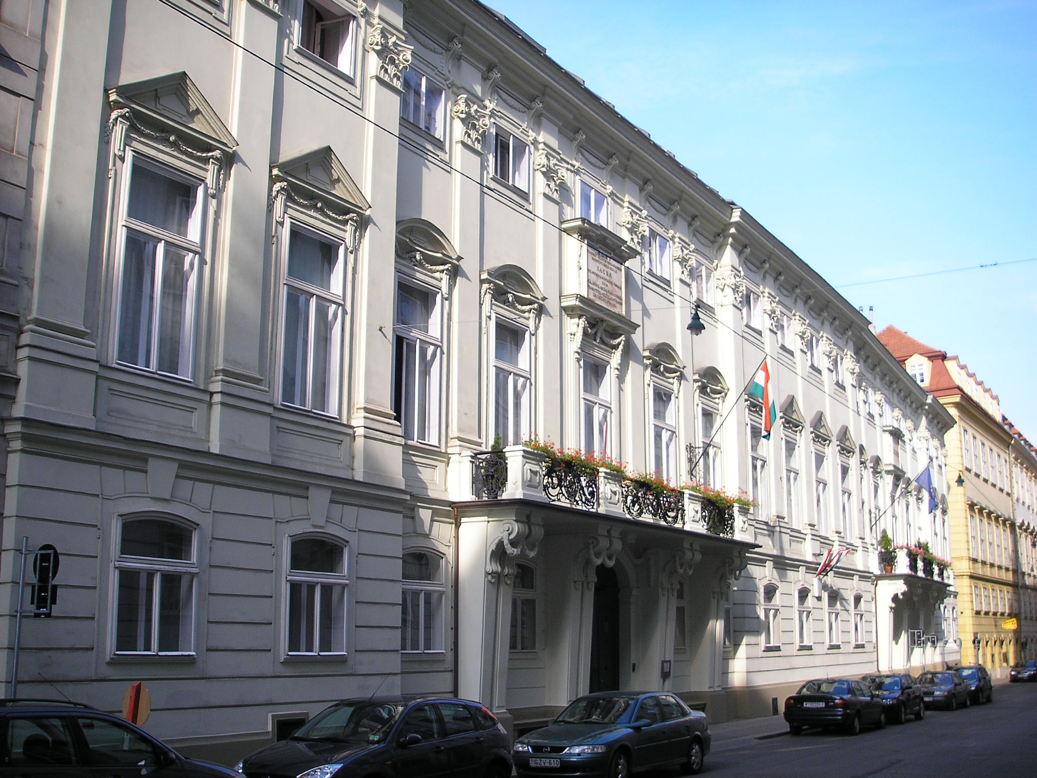 Image of the Palais Strattmann, today the Hungarian embassy in Austria. The embassy building consists of two Palais which were combined together.